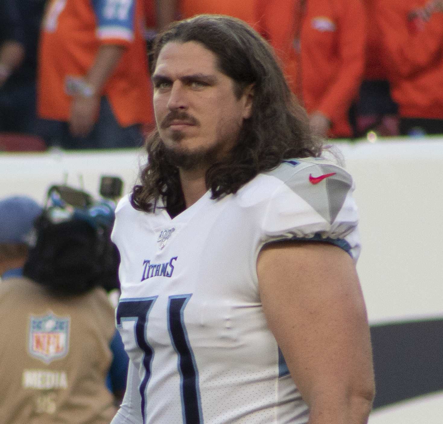 Kelly with the Titans on October 13, 2019